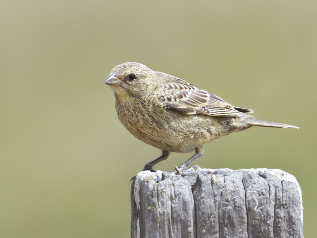 A juvenile Brown-headed Cowbird in San Luis Obispo, California, USA.